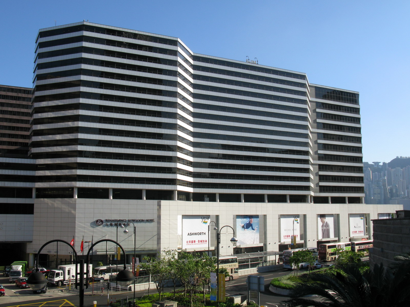 Renaissance Kowloon Hotel, New World Centre (demolished)